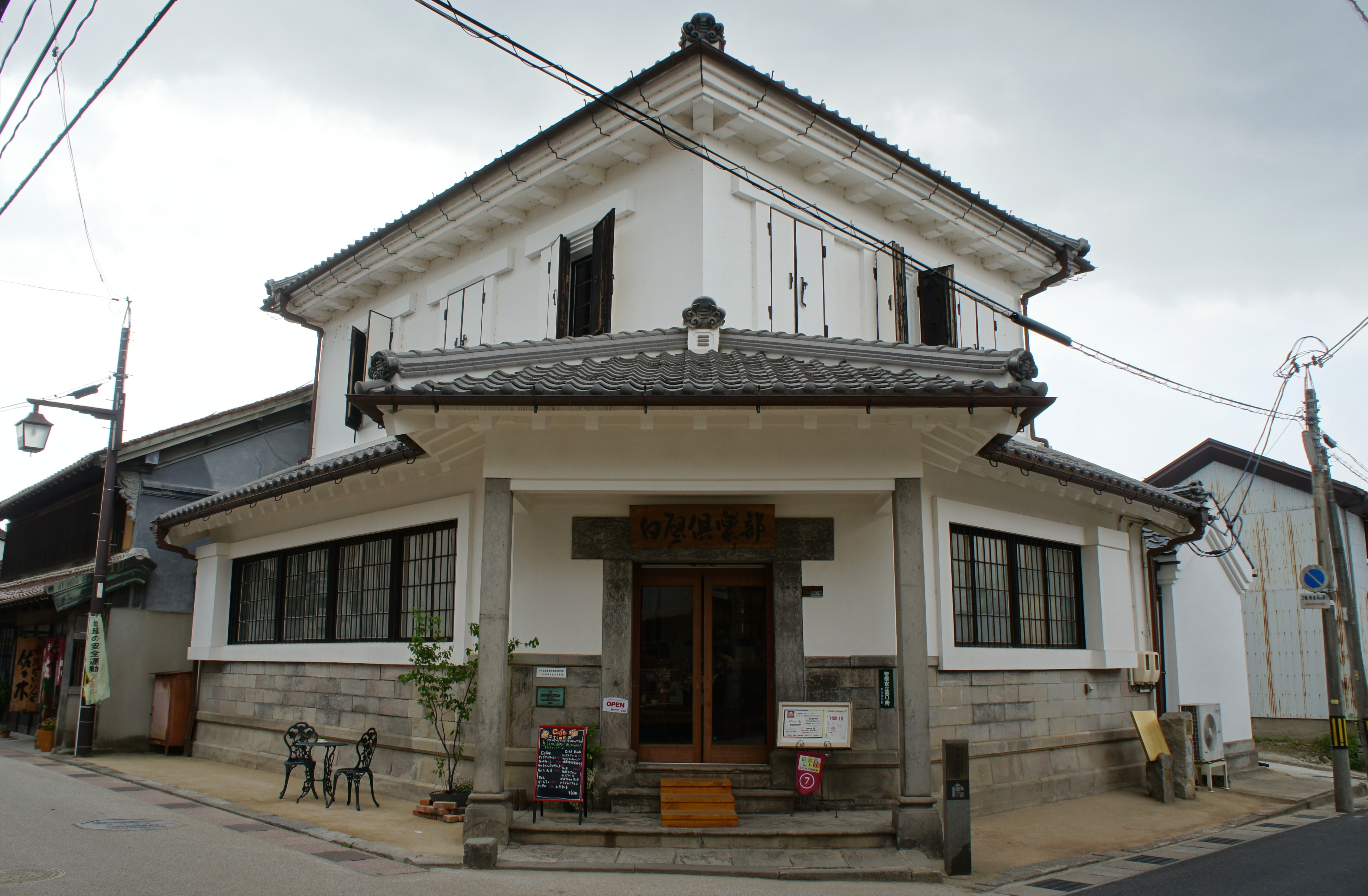 Kurayoshi Daitenkai (Kurayoshi, Tottori Prefecture, Japan)